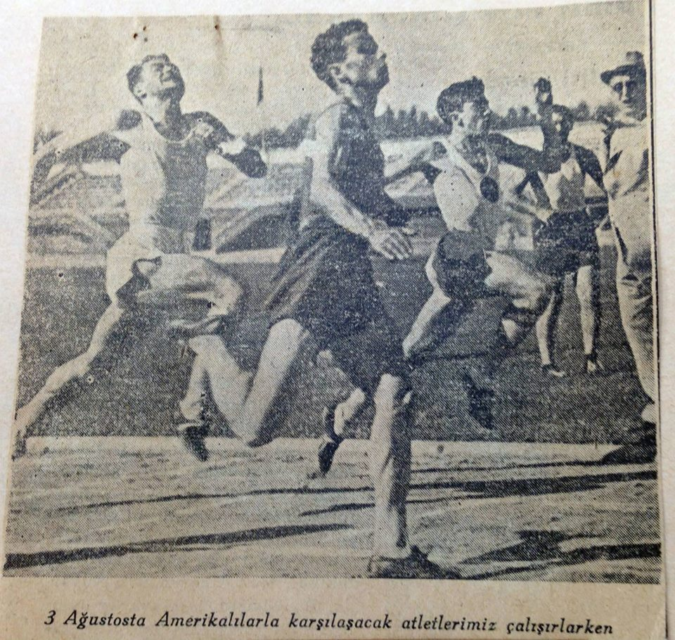 Raşit Öztaş comes first in a race